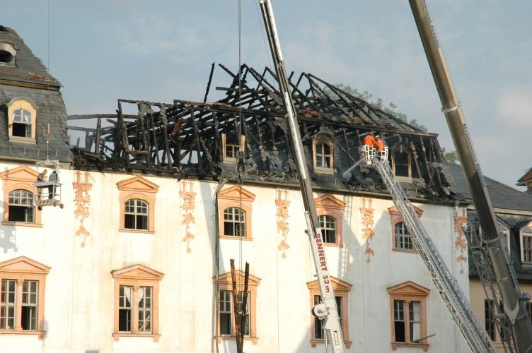 Anna Amalia Library Weimar Descrution trough the burning 3.9.2004 The picture is taken about 18 hours after the start of the burning.